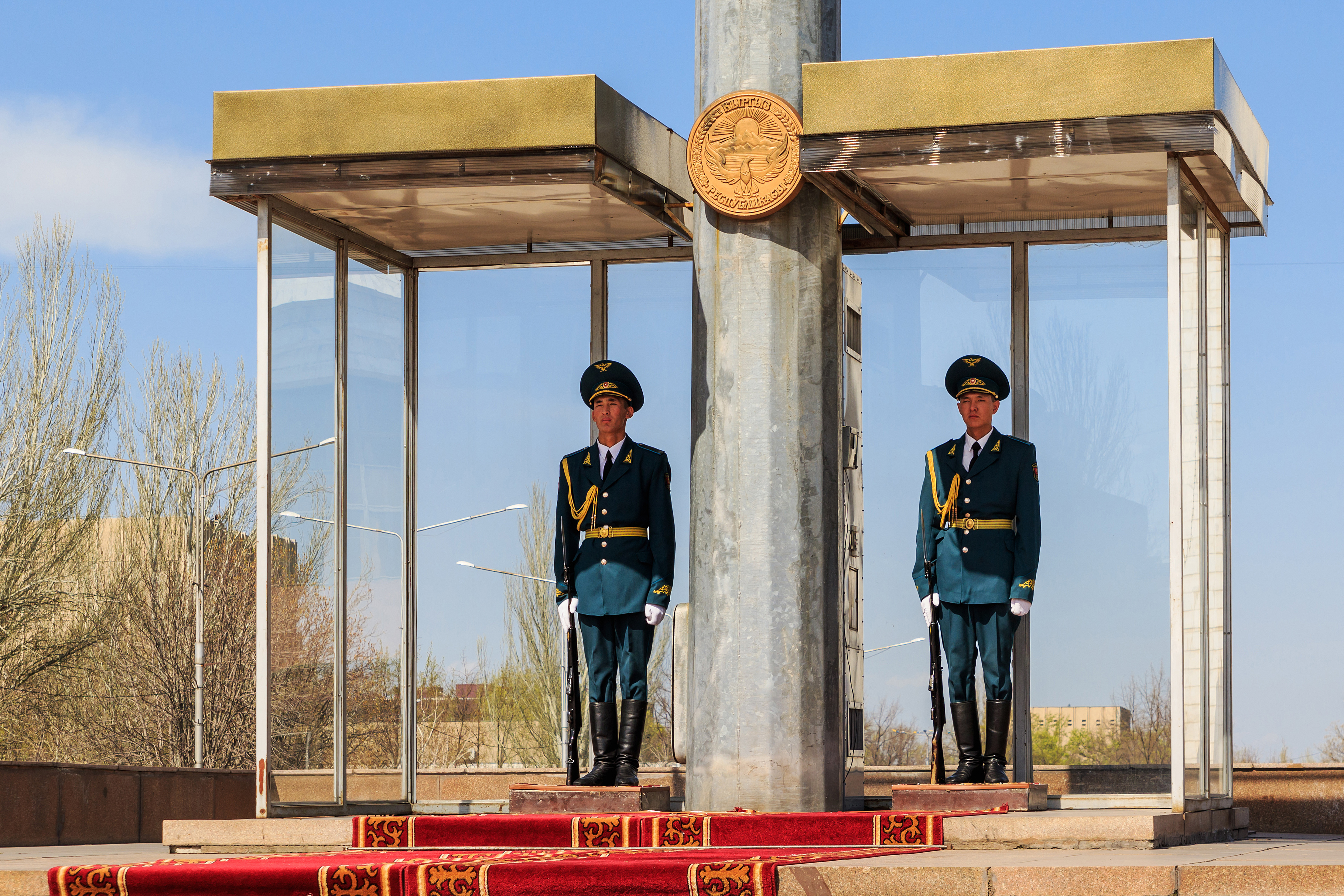 Honour guards at Ala-Too Square in Bishkek, Kyrgyzstan